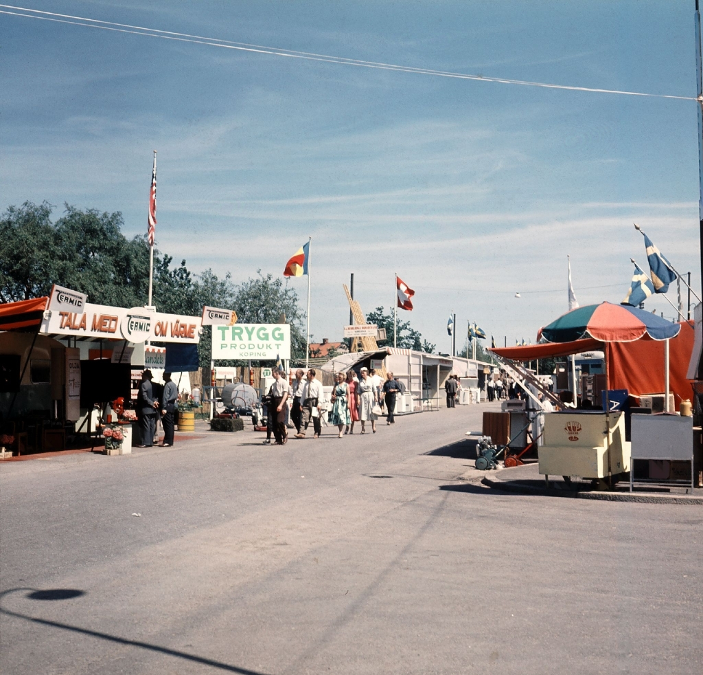 The fair in Örebro 1965